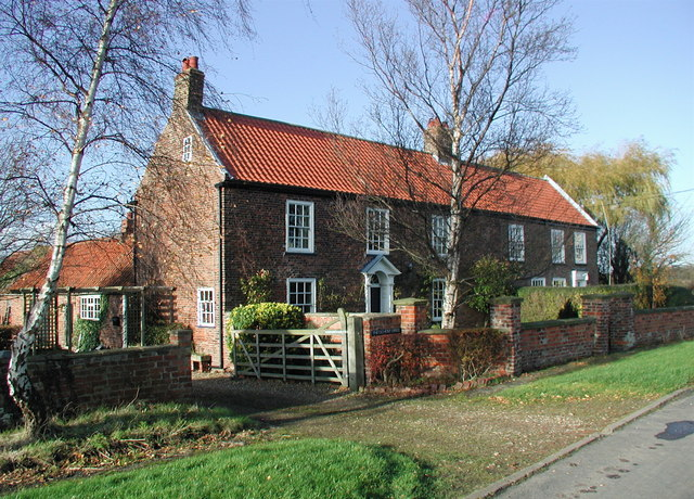 The Old Post Office, Winestead, East Riding of Yorkshire, England.Houses on this road have a Byedales Lane address, although according to O/S maps the lane turns east at a junction south of here leaving this stretch of road without a name.